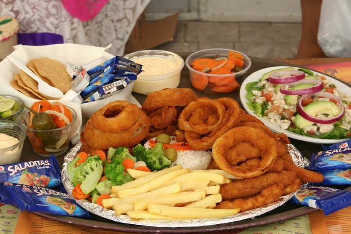 seafood